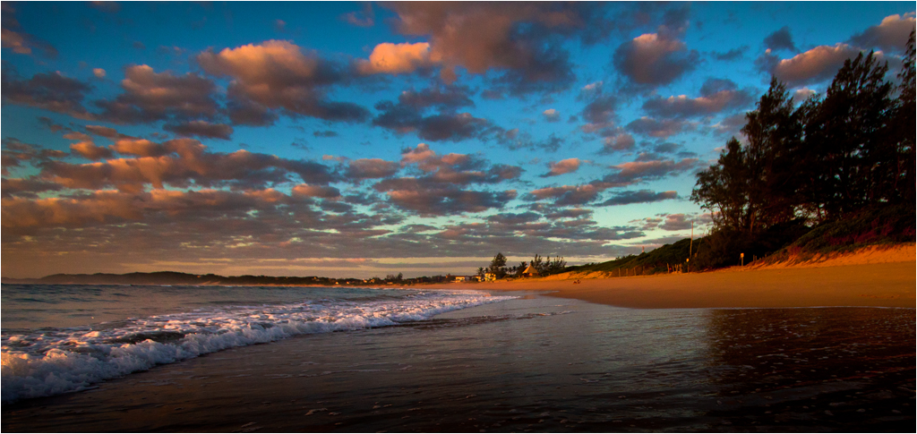 Ponta do Ouro, Mozambique. A small fishing and scuba diving holiday resort and village on the most southern point of Mozambique